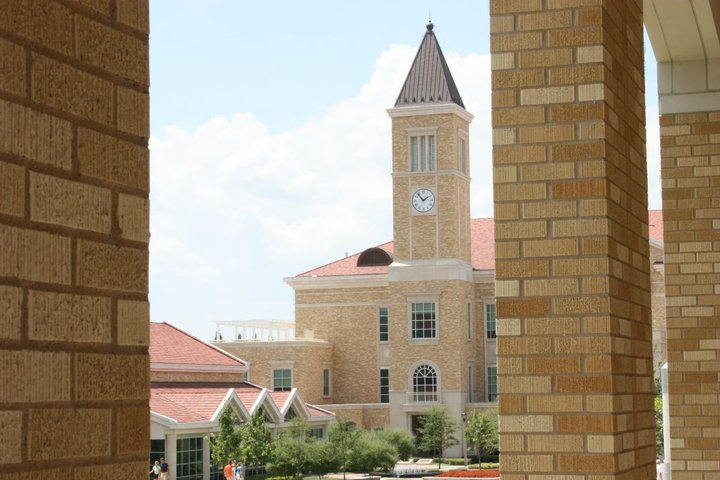 The BLUU at TCU